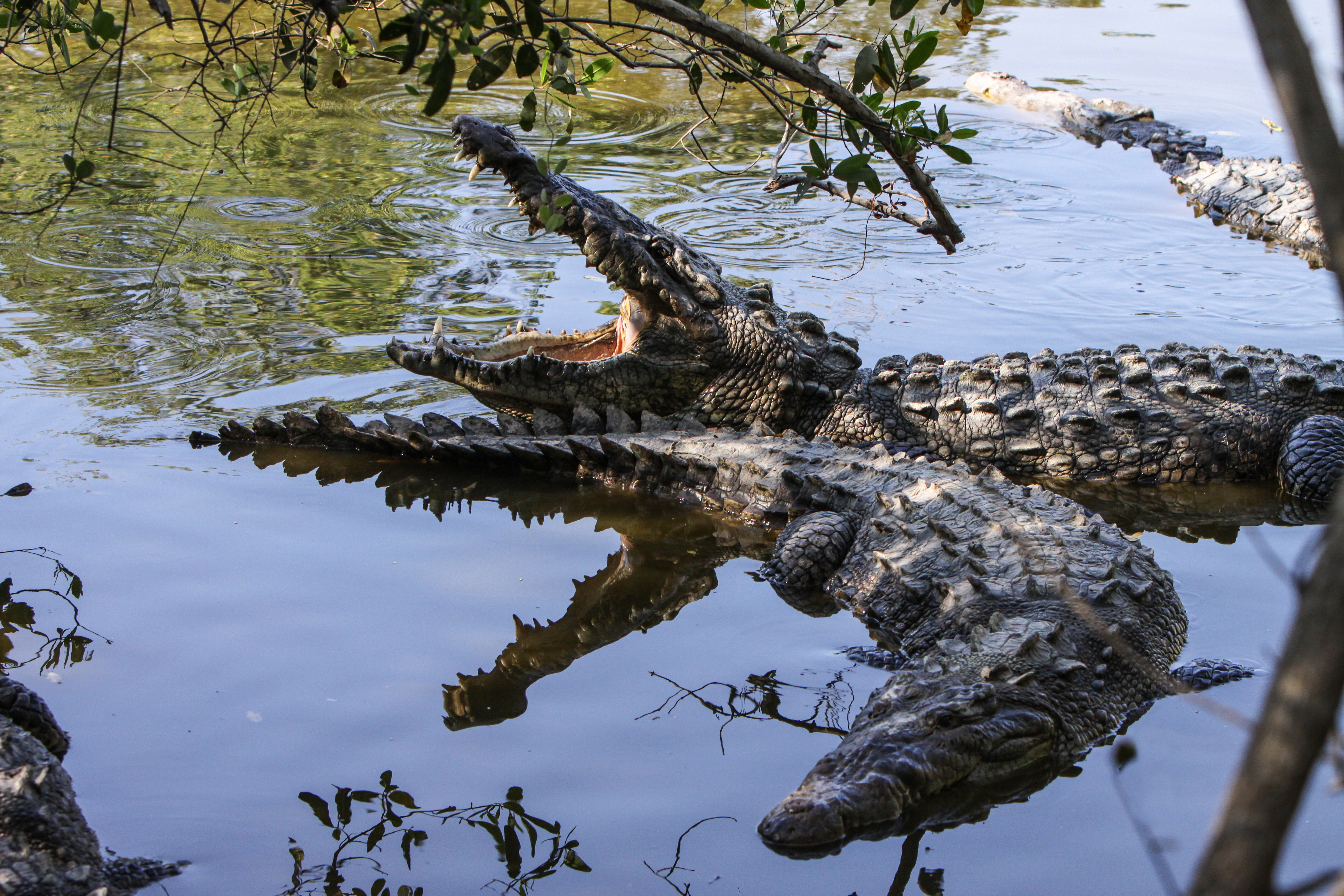 Crocodylus acutus sunbathing. Taken at La Manzanilla, Jalisco, Mexico, site of a beautiful well preserved mangrove for eco-tourism next to a still-semi-virgin area and cool town to relax, with uncrowded calm beach in Tenacatita Bay. Paradise.